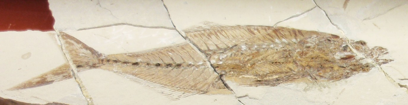 Fossil of Seriola prisca, an extinct fish